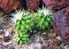 Cacti in the Cactus Gardens, at the Singapore Botanic Gardens.